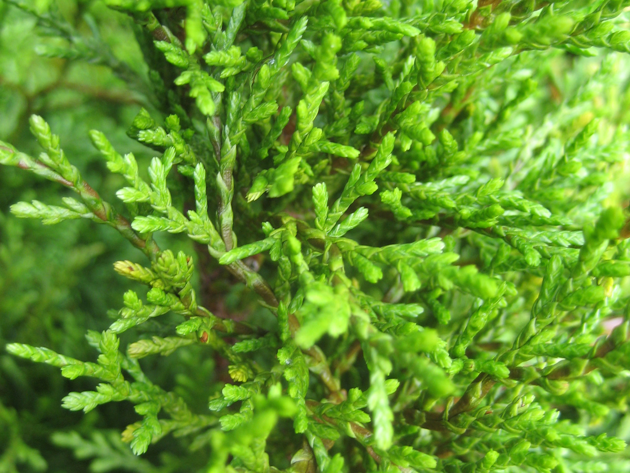 Pāhautea or New Zealand Cedar, Libocedrus bidwillii, foliage